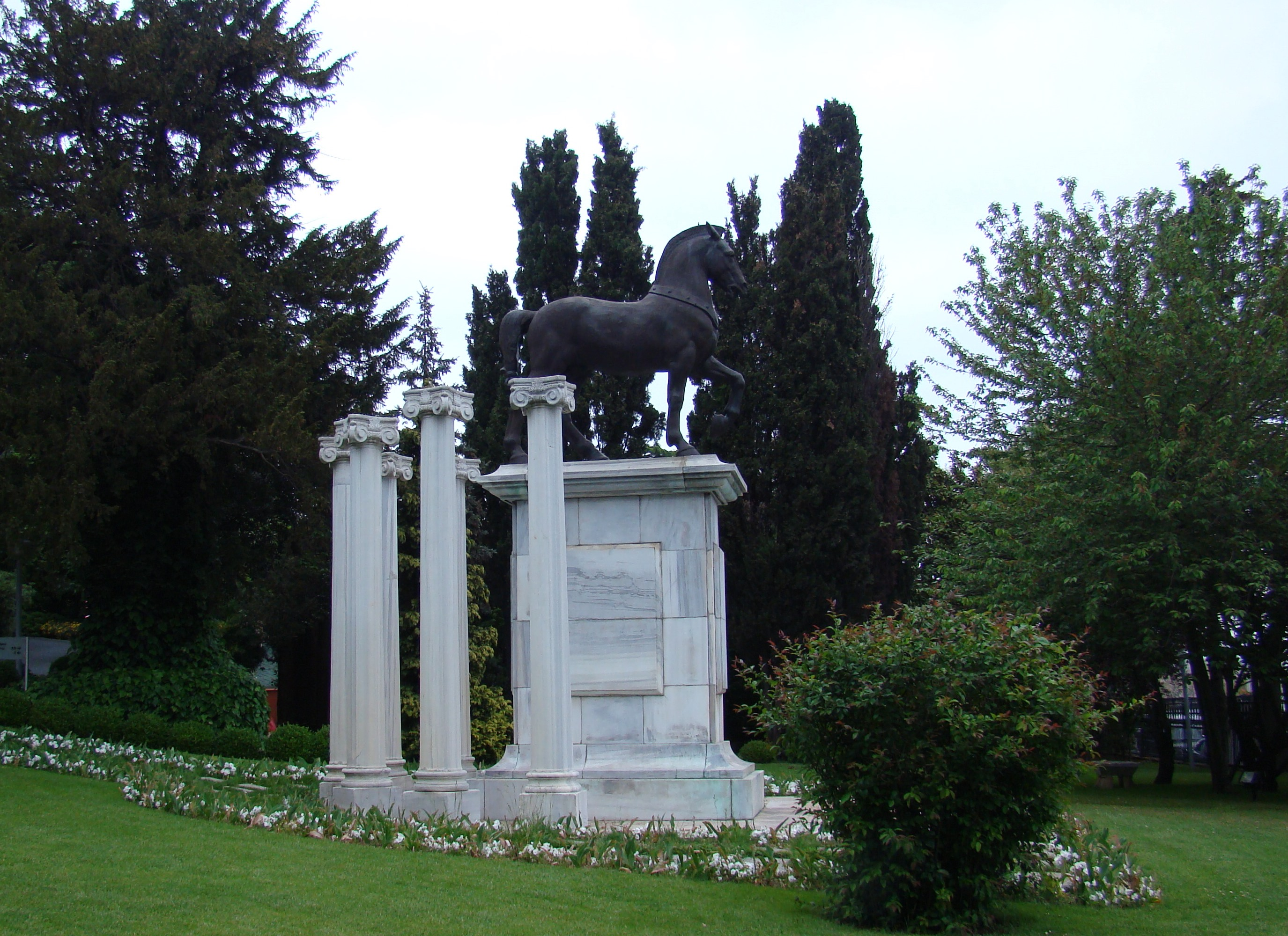 Park in the yard of Sakip Sabancı Museum